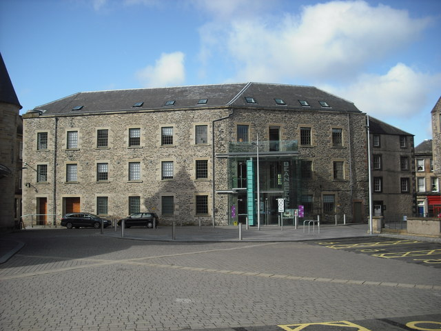 Beanscene Hawick This former mill was renovated to form a multi-functional building that incorporates a café, a theatre/cinema, studios and workshops. The original waterwheel is visible via a glass floor.